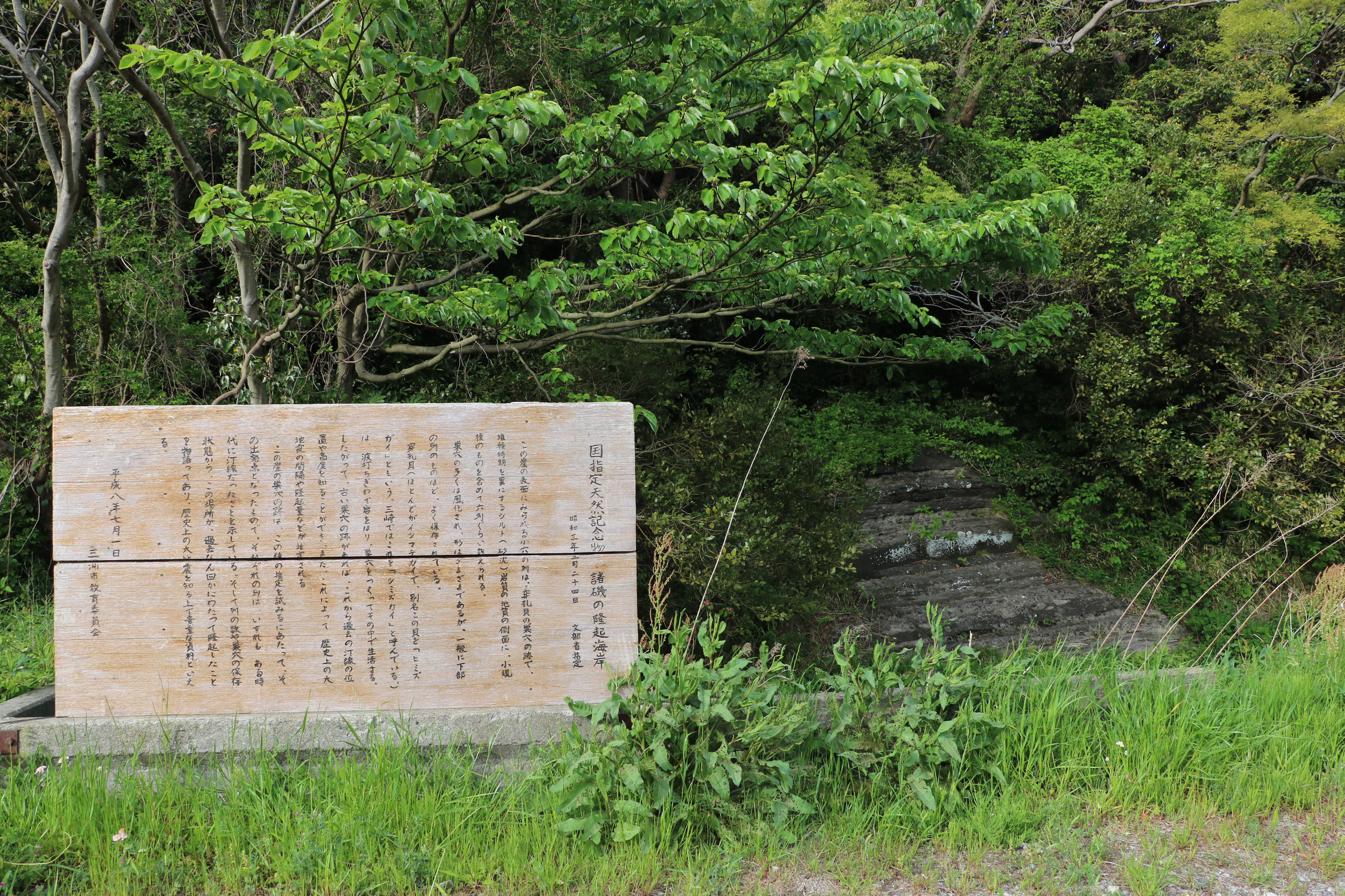 Moroiso uplift coast strata and Explanatory board